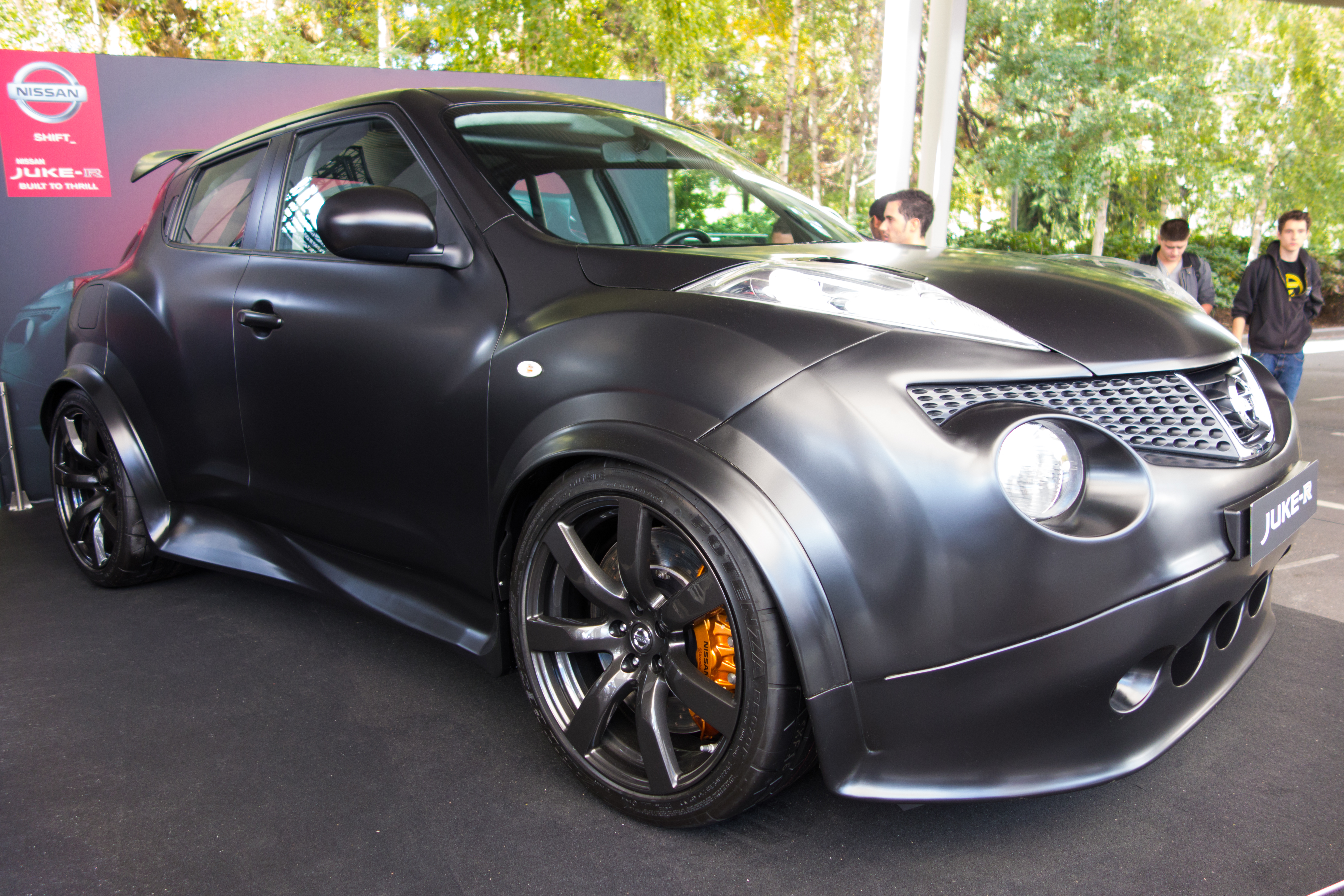 Mondial De L'automobile Paris 2012 | Paris Motor Show 2012